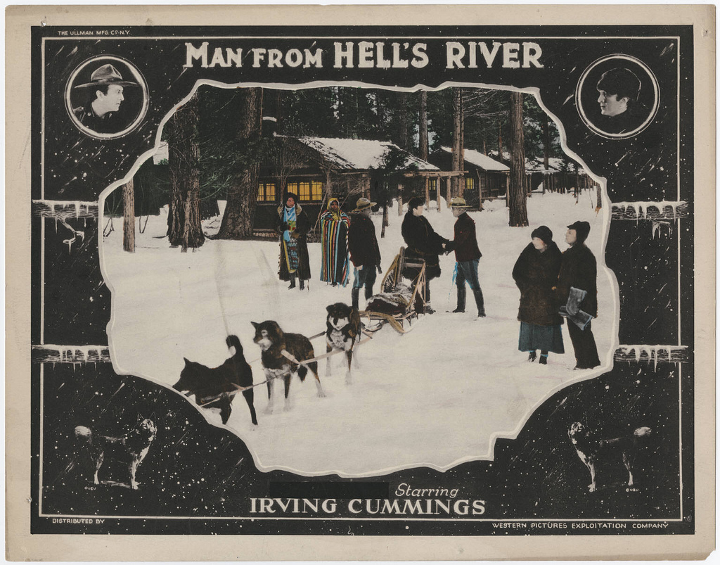 Lobby card for the American western film The Man from Hell's River (1922). This film starred Irving Cummings and was the dog actor Rin Tin Tin's first film. Approximately 28 x 35 cm. Part of the Western silent films lobby card collection, 1912-1930. Cite as Yale Collection of Western Americana, Beinecke Rare Book & Manuscript Library, Yale University. Bibliographic Record Number 2019887. Permalink